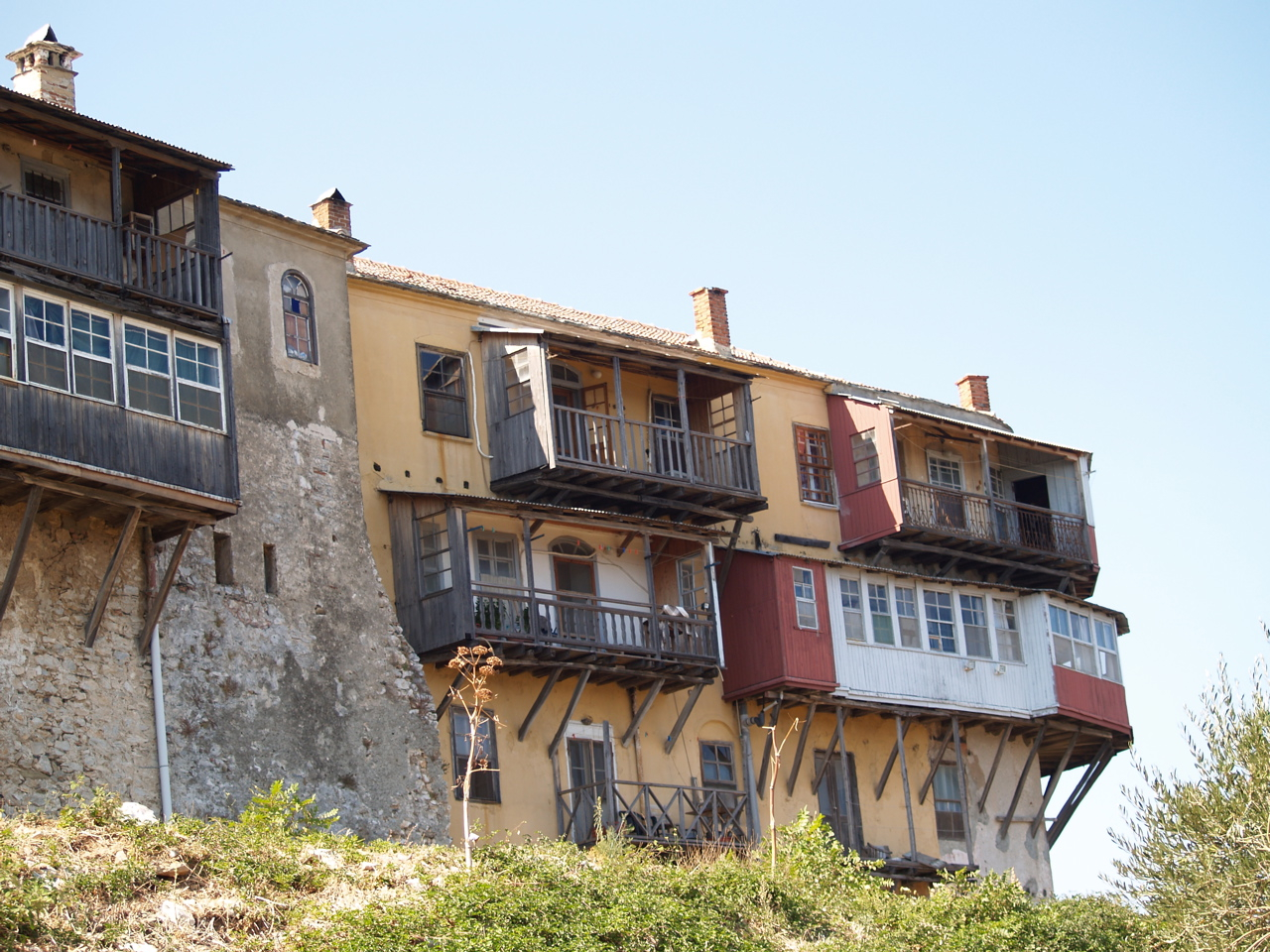 Great Lavra